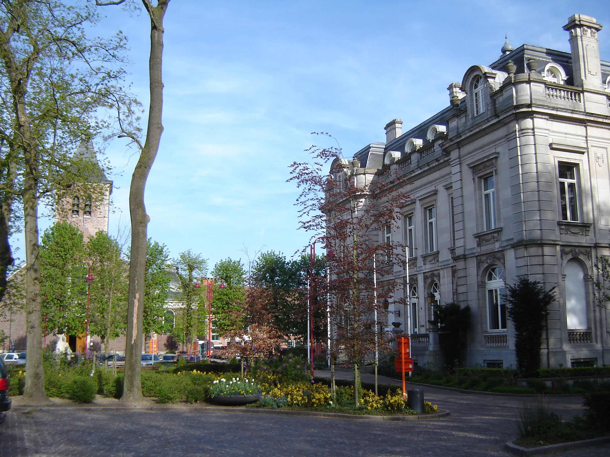 Town center of Destelbergen, with its church and town hall. Destelbergen, East Flanders, Belgium